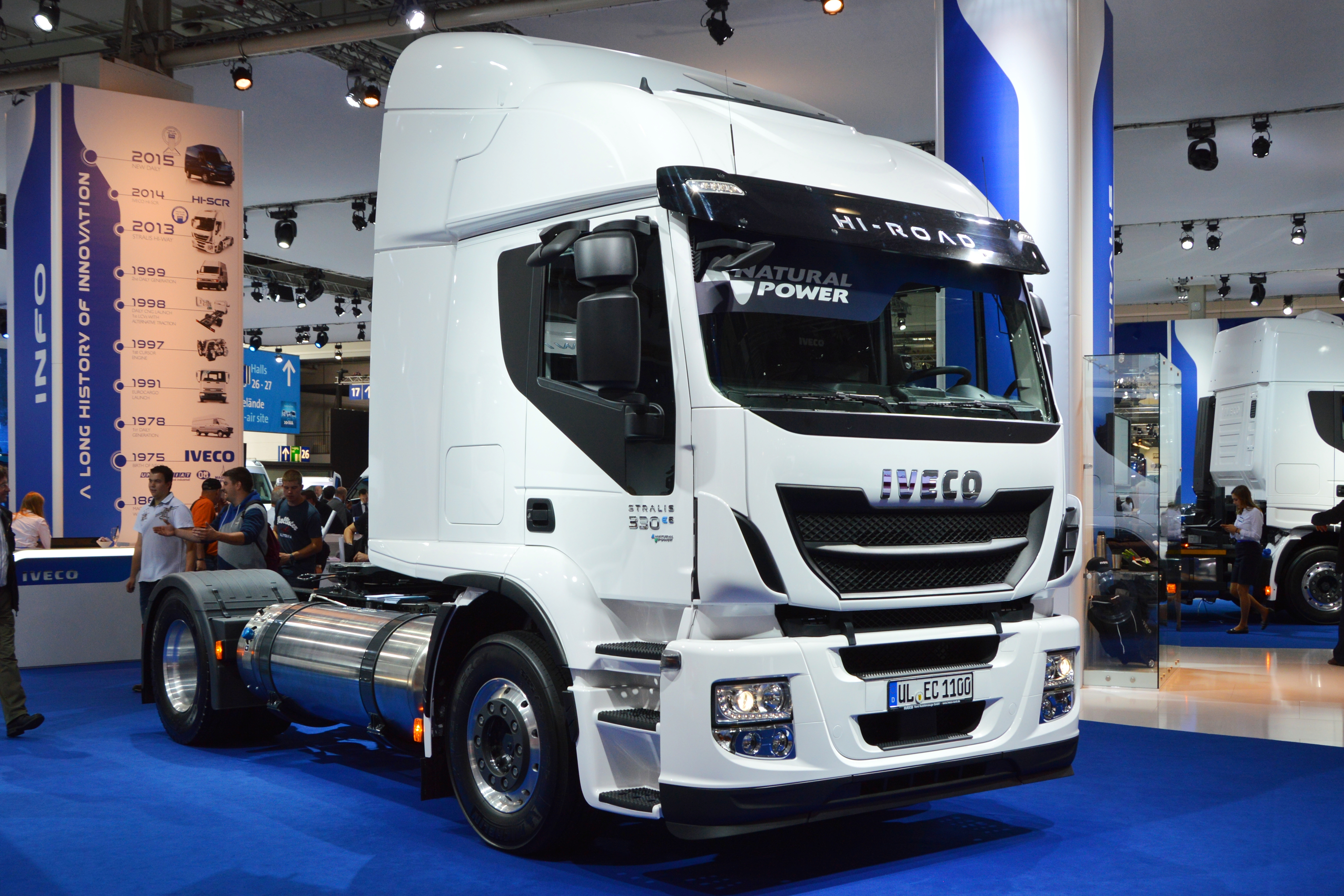 Iveco Stralis 330 E6 "Natural Power". Natural gas and biomethane used in the STRALIS as CNG (compressed natural gas) or used with -125 ° C as liquefied LNG (liquid natural gas). Hi-Road cab.